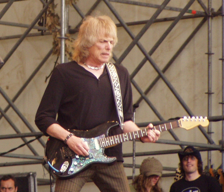 Scott Gorham (Thin Lizzy) during Gods of Metal 2007 festival.